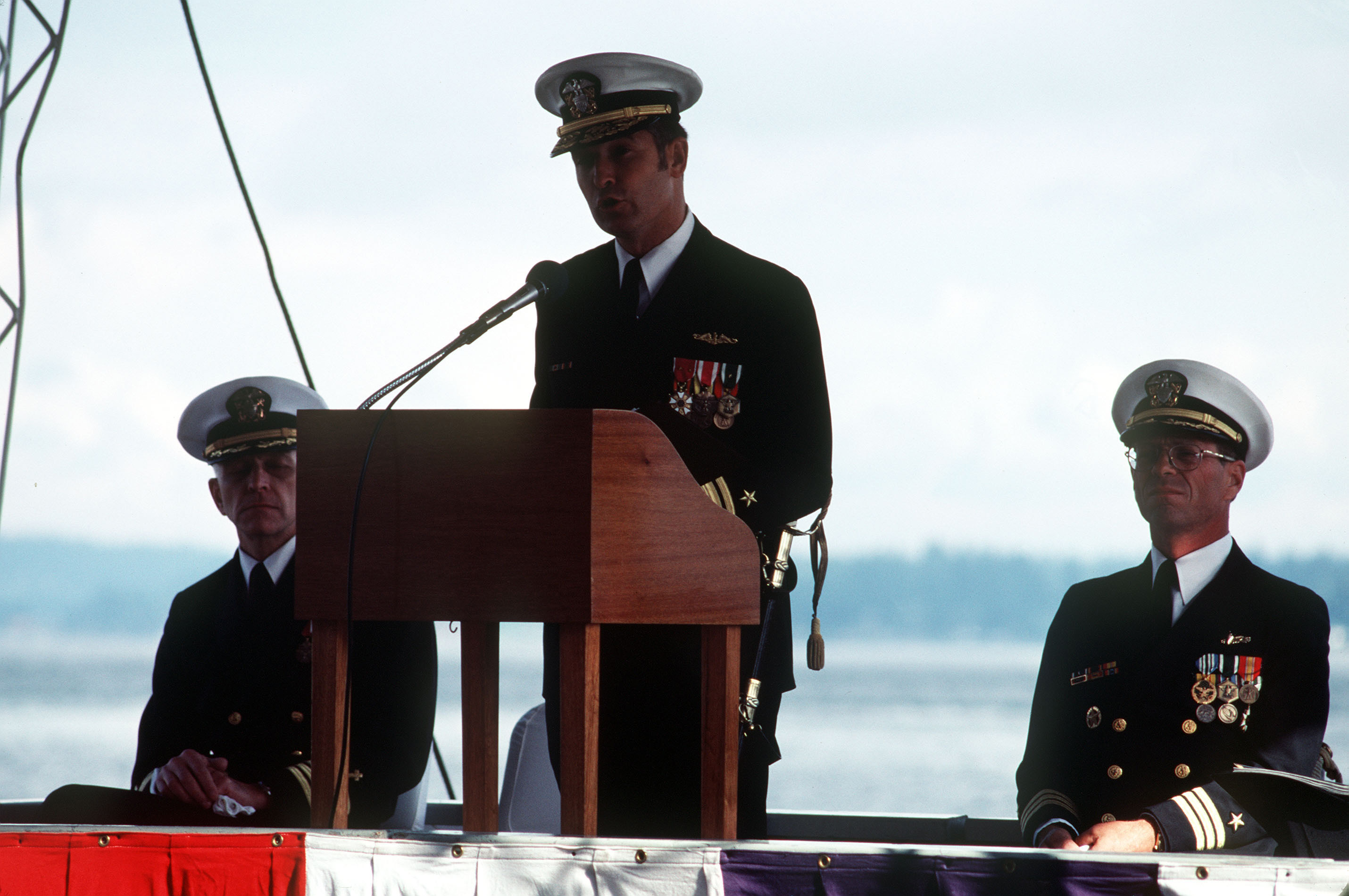 Puget Sound Naval Shipyard, Bremerton, Washington. United States Navy Rear Admiral James D. Williams, Commander, Naval Base Seattle, delivers his address as the keynote speaker during the commissioning for the hydrofoil USS TAURUS (PHM 3). Seated behind Williams are: Captain Oliver H. Wetzel, Chaplain Corps (left), and Commander L.M. Hardt, Commander, Patrol Combatant Missile Hydrofoil Squadron Two.